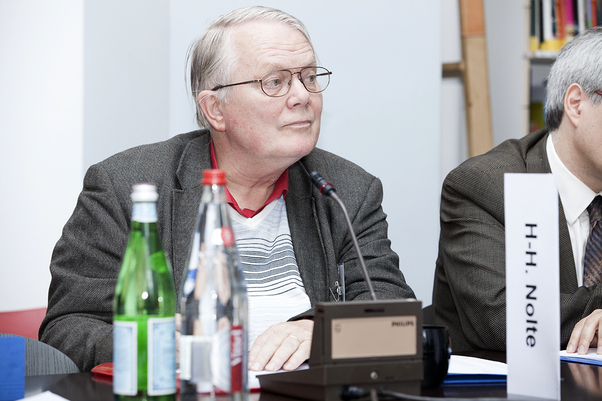 Professor Hans-Heinrich Nolte, Leibniz Universität Hannover, at the Luxembourg Institute for European and International Studies conference Arno J. Mayer – Critical Junctures in Modern History, 10-11 May 2013, Casino Luxembourg.